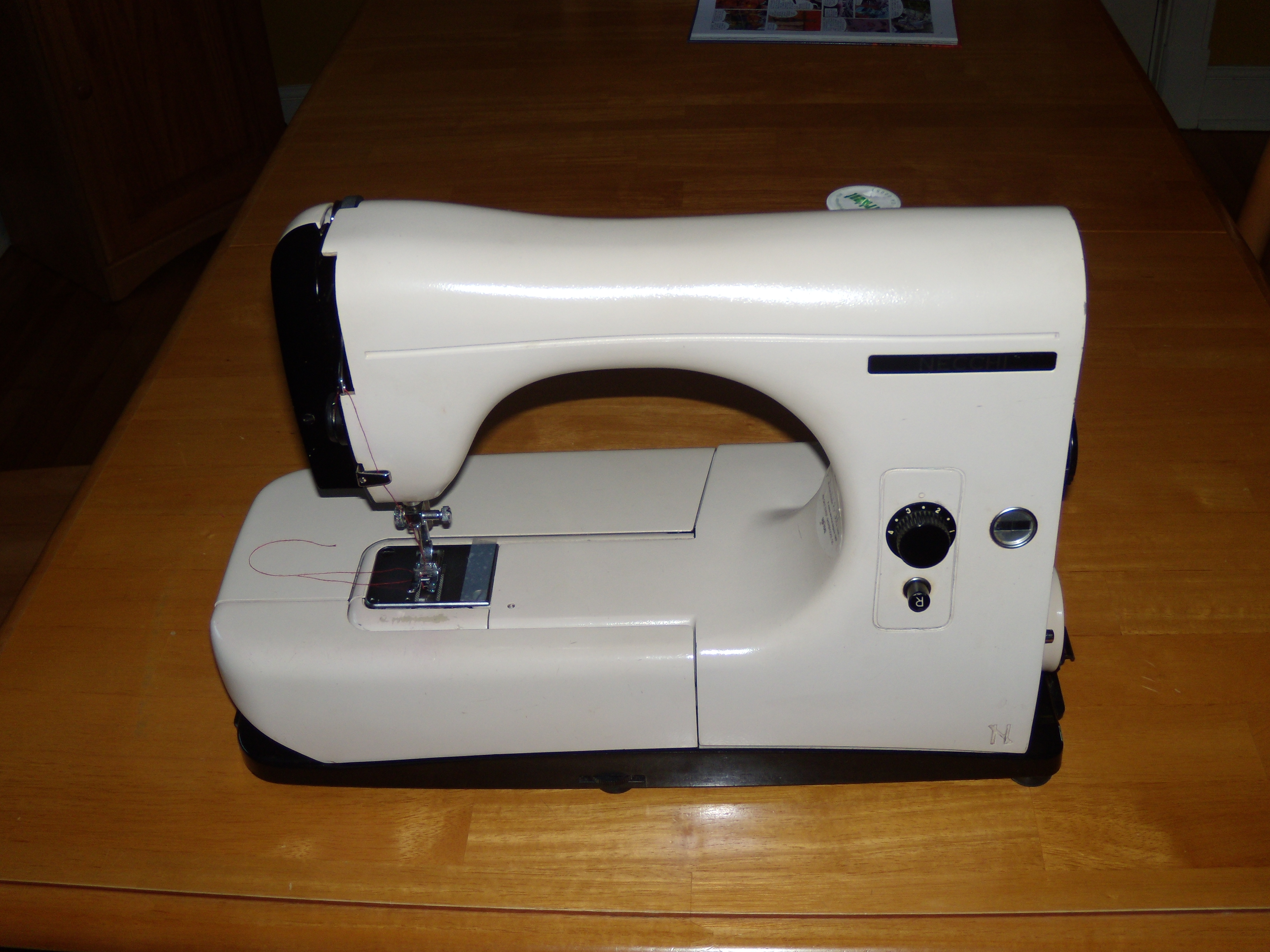 Necchi 544 front view, designed by Marcello Nizzoli